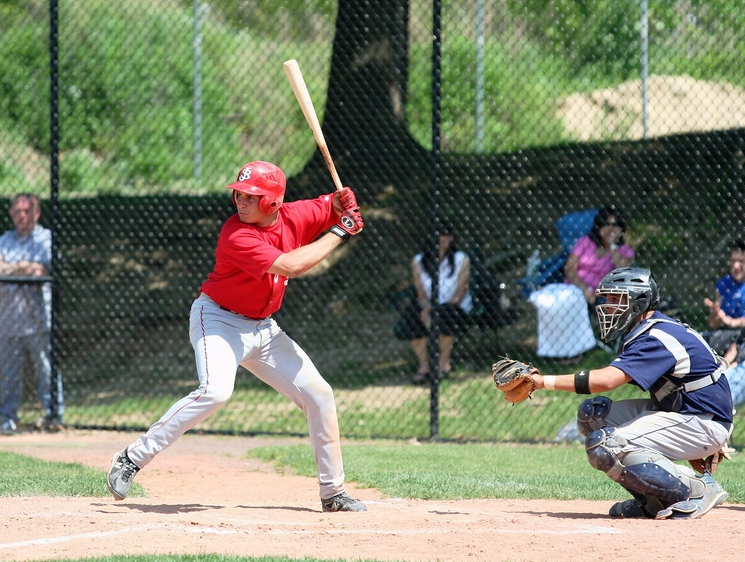 Picture taken at NYIT during NSCHSAA championship game.